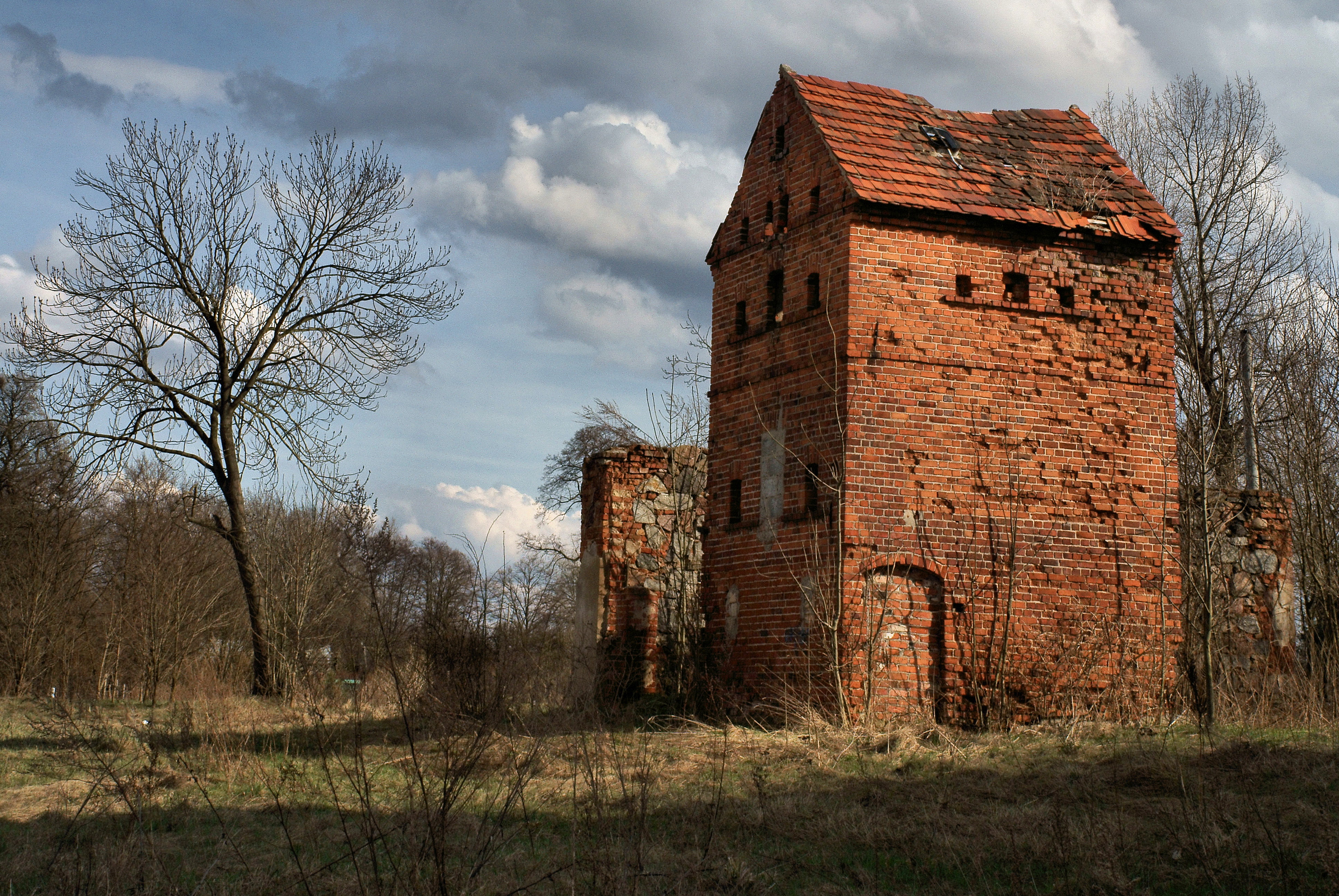 Ruins of a manor complex in Komorniki, Dolnośląskie Province, Poland.